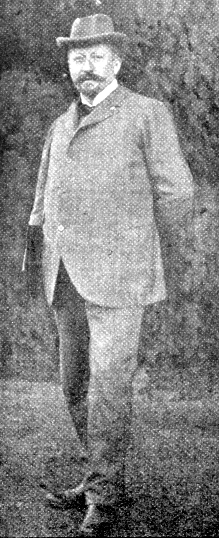 Dr. Eduard Mybs, physician, chairman of German Esperanto Association, 1907 in Cambridge